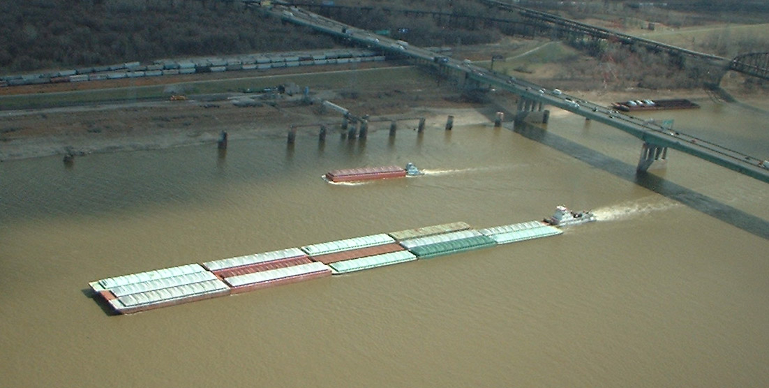 A barge on the Mississippi river after passing under the Poplar St Bridge. The picture is taken from the top of the Gateway Arch in St. Louis.